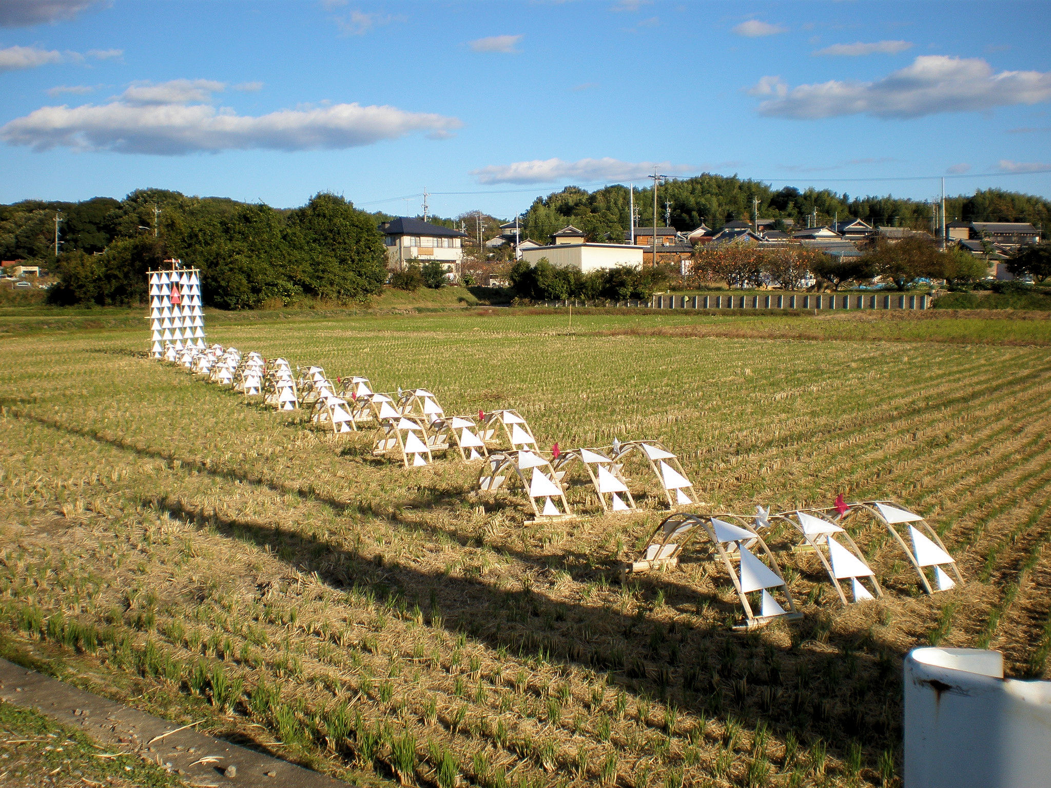 Bamboo Installation in Okusa, Komaki, Aichi Pref, Japan